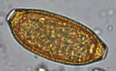 Gastrointestinal parasites in seven primates of the Taï National Park - Helminths Figure 3j of paper. Egg of Capillariidae Gen. sp. 1